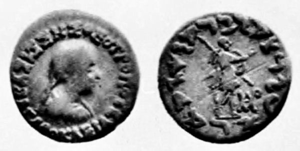 Whitehead Coins of the Punjab Museum Plate IX Straton and Agotokleia